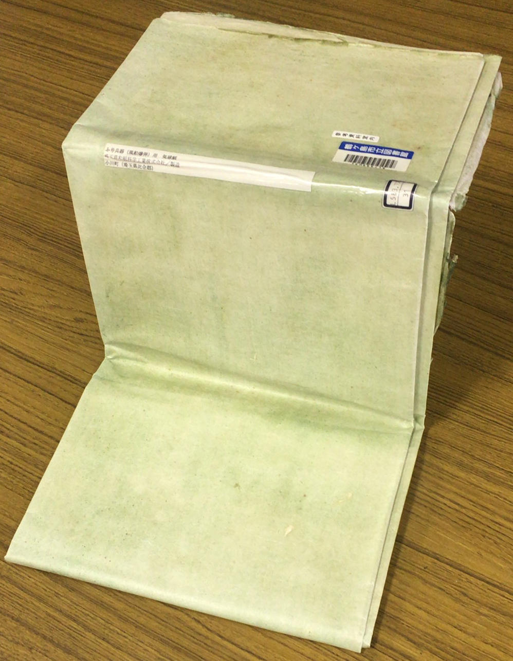 The Ogawa Japanese paper used for fire balloon project Fu-Go. It was a defective batch and was not actually used. Tsuruga island central library collection.